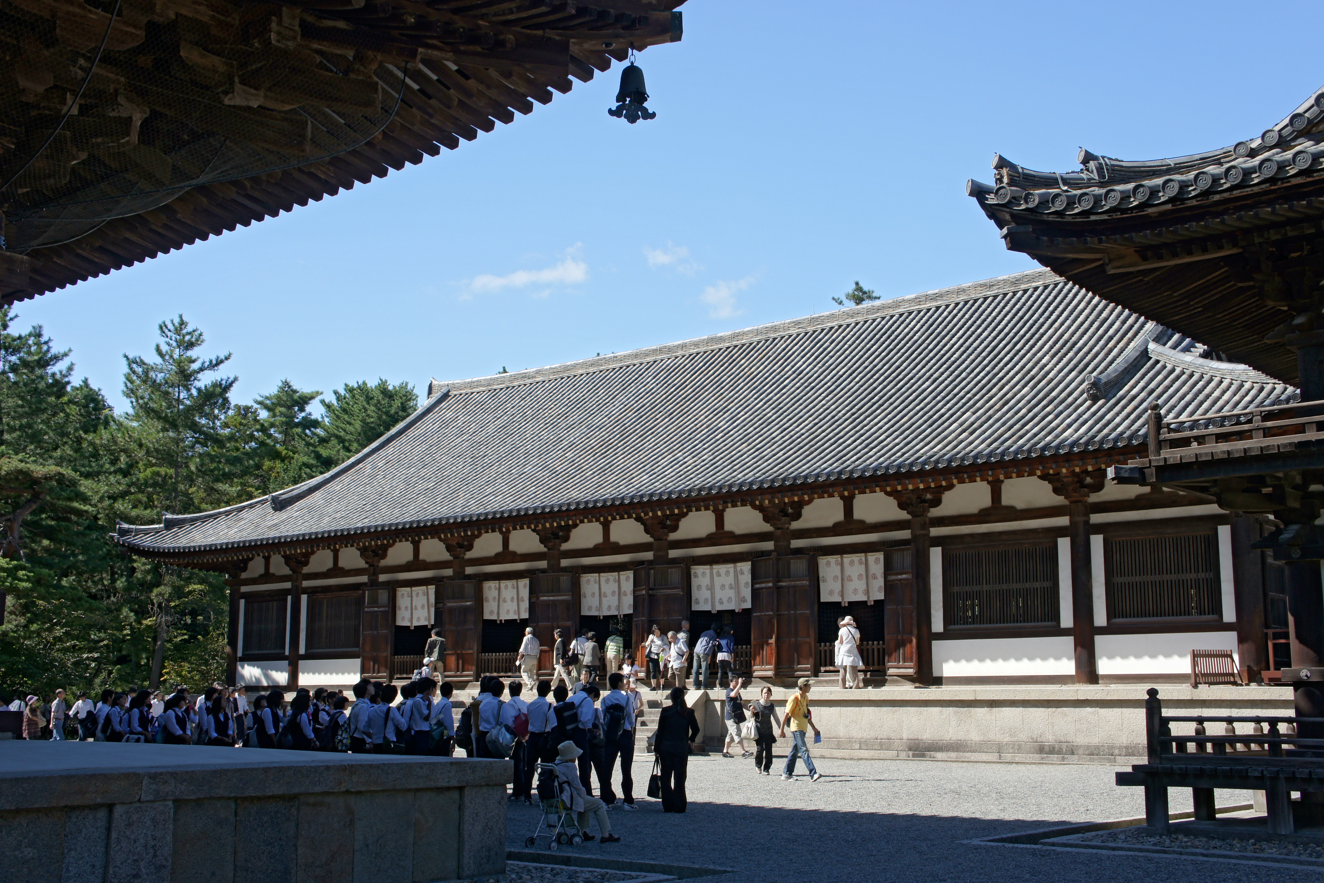 Tōshōdai-ji's Kōdō ( Lecture Hall ) is a Japan's National Treasure in Nara, Nara prefecture, Japan. It was built at the Nara period (AD 710 to 794).